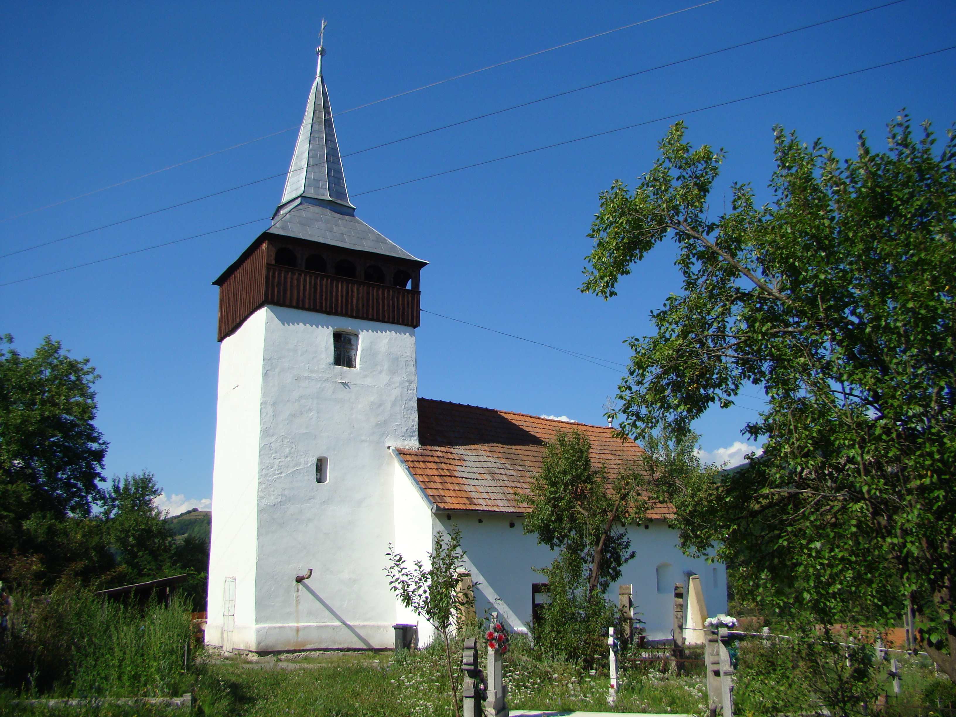 Orthodox church of the Annunciation in Almașu Mare, Alba county, Romania